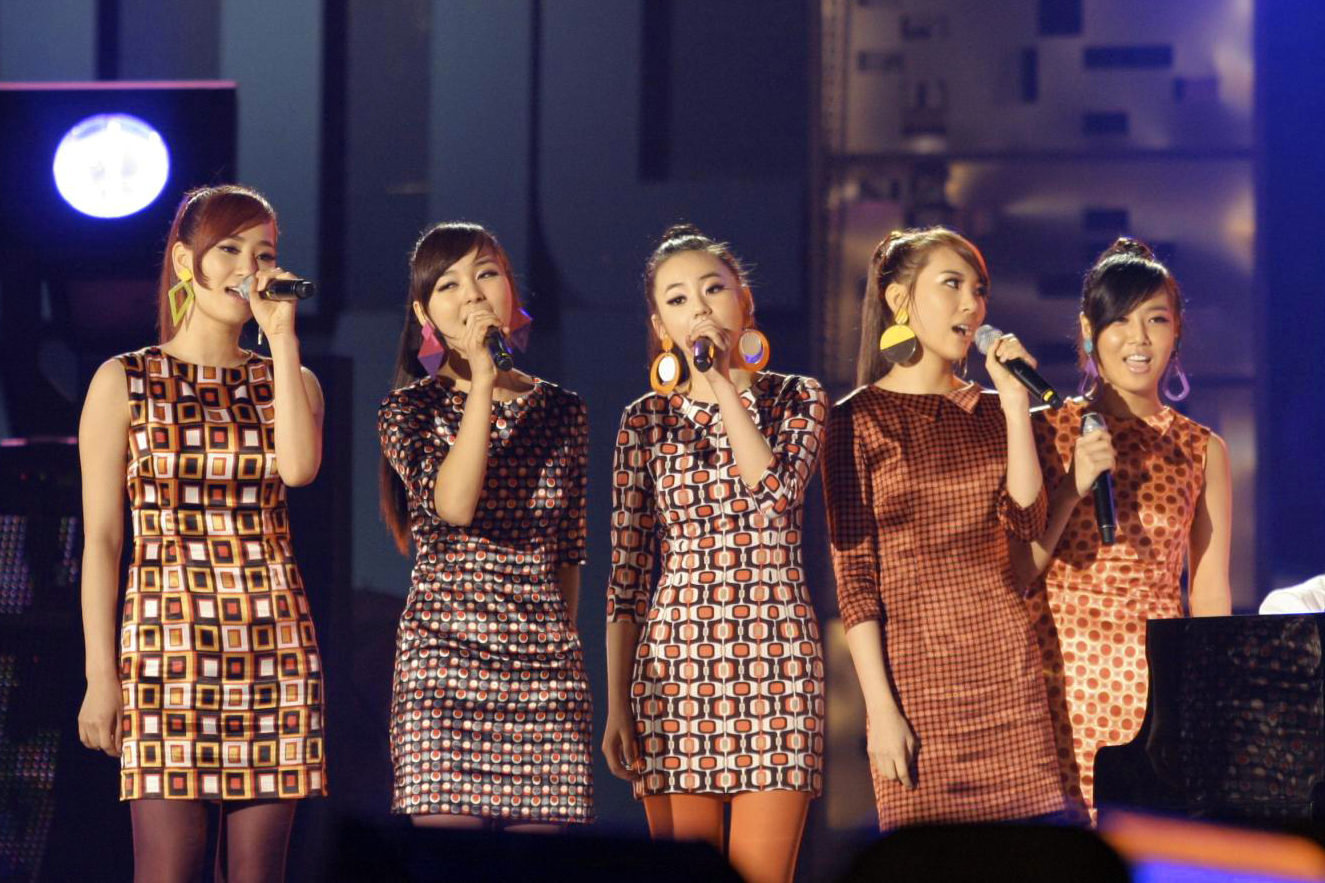 The Wonder Girls at the 2008 MBC Campus Song Festival.